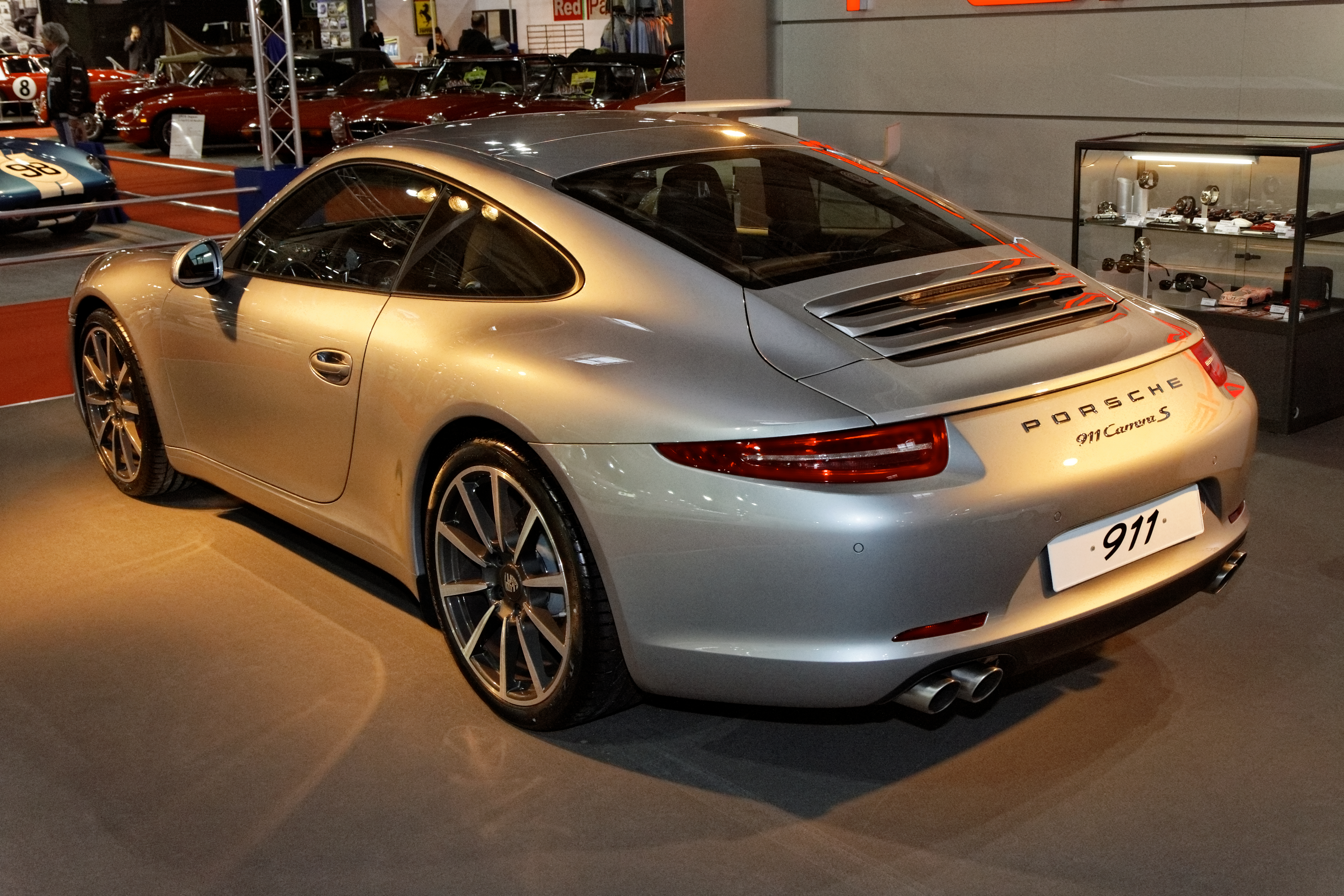 Porsche Carrera S coupé